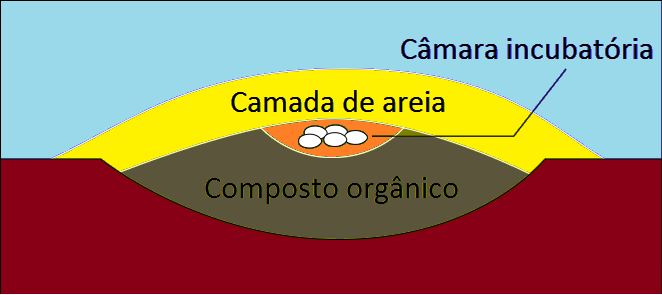 Cross section of a Malleefowl (Leipoa ocellata) mound, showing layer of sand (up to 1 m thick) used for insulation; egg chamber; and layer of rotting compost. The egg chamber is kept at a constant 33°C by opening and closing air vents in the insulation layer, while heat comes from the compost below.